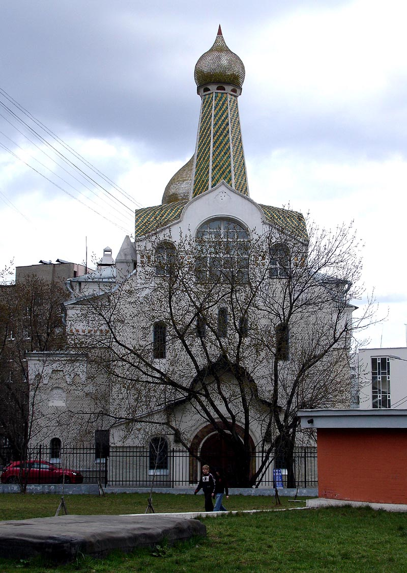 Old Believers church in Gavrikov Lane, Moscow, Russia. Designed and built in 1906-1911 by Ilya Bondarenko for Rogozhsko-Belokrinitskoye Soglasie denomination.